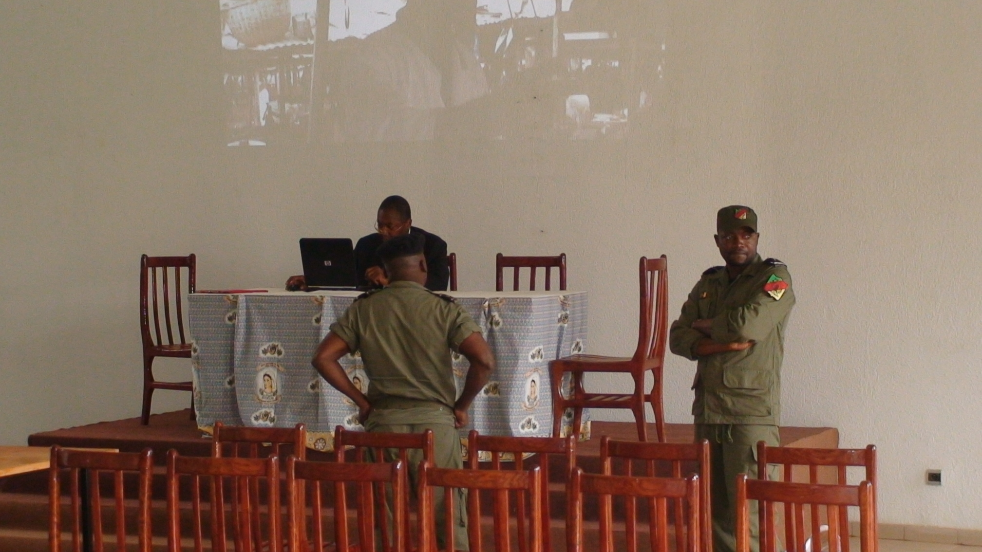 Louis Tobie Mbida sequestered at Mvolyé